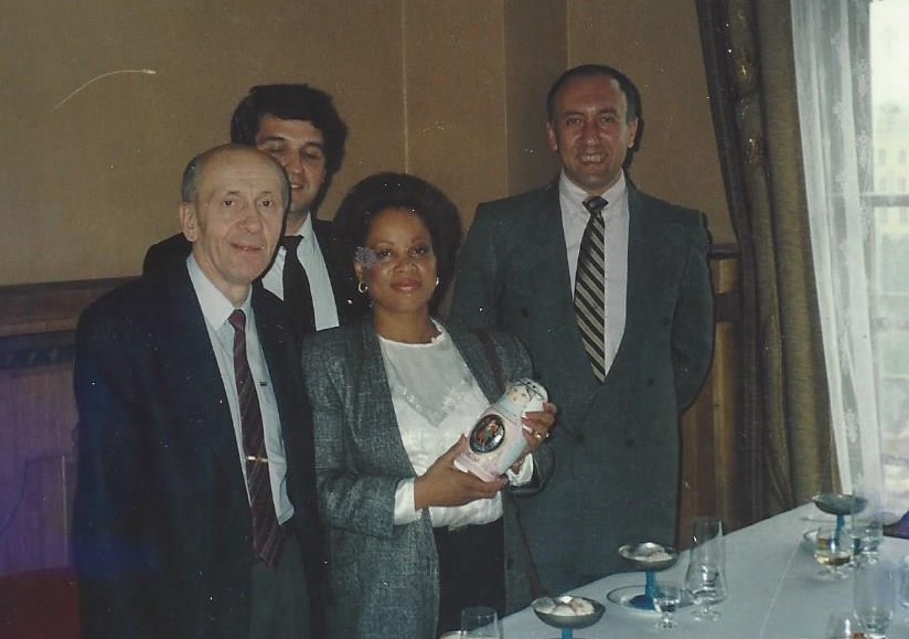 Leon Weinstein With academic and economist Stanislav Shatalin